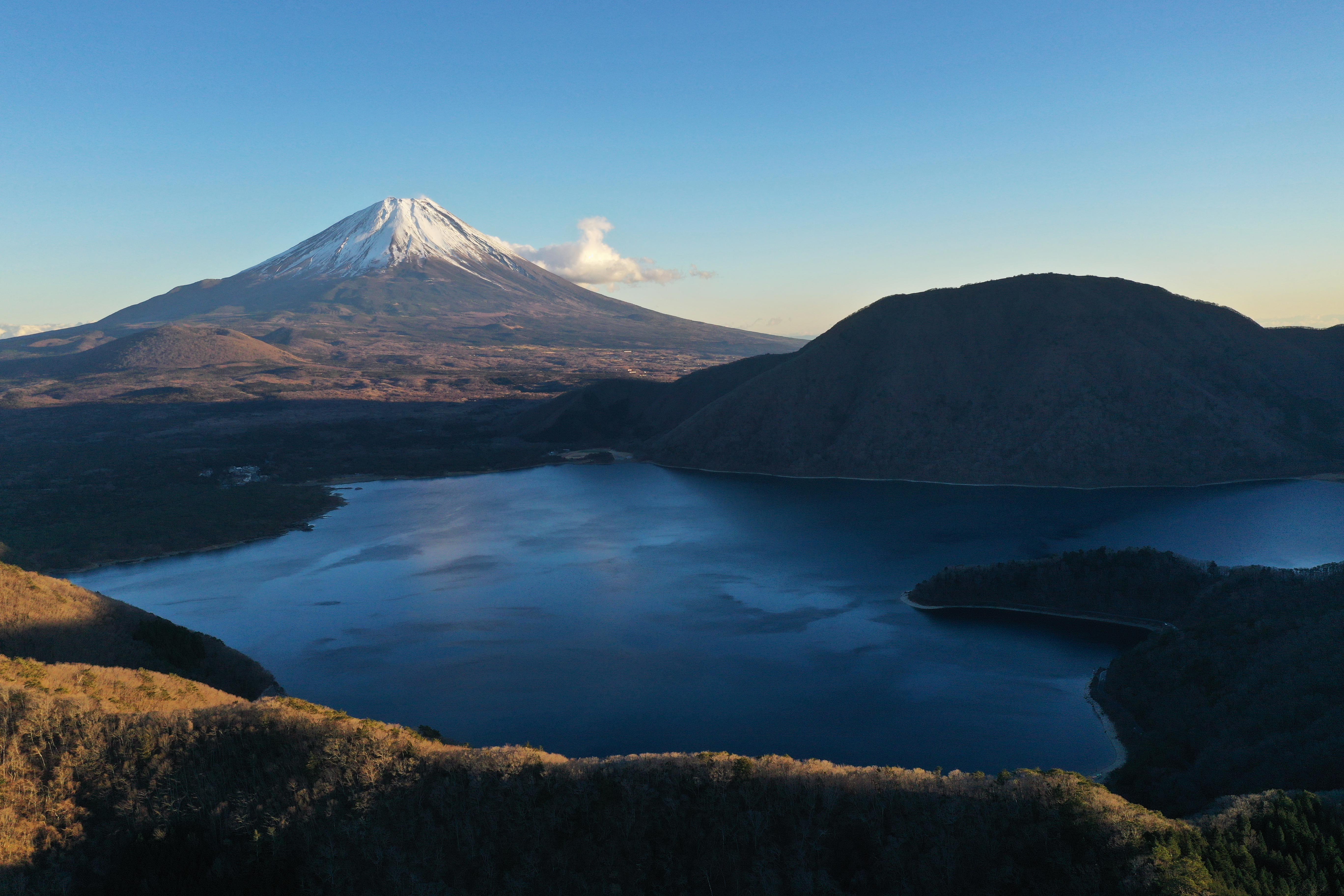 NW side of Mount Fuji and Lake Motosu in Japan.